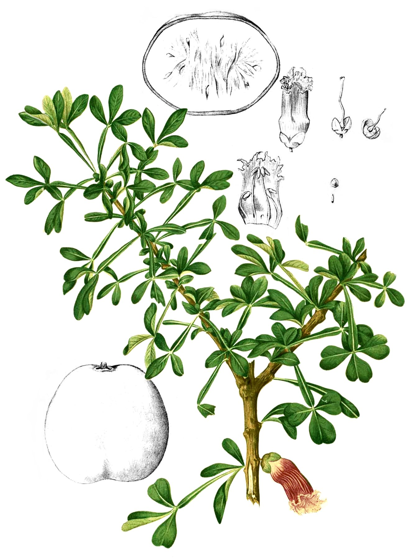 Plate from book